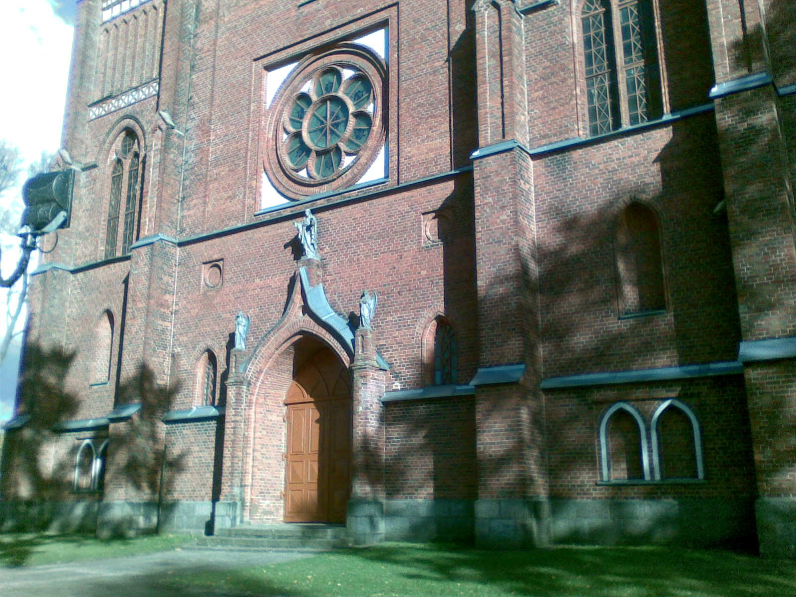 Jurbarkas church entry.